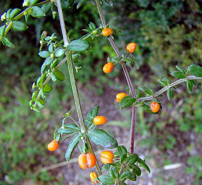 Widespread in Latin America, here in southern Chile.